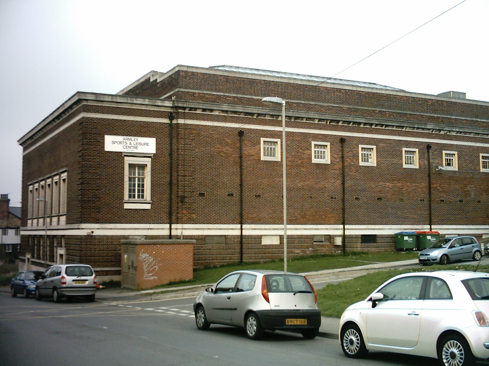 Armley sports and leisure centre in Armley, Leeds, West Yorkshire, UK. The centre will be demolished when the new facility adjacent to it is completed. The pool area has a large glass roof and mezzanine level for viewing that surrounds the entire pool.